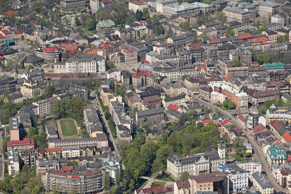 Aerial photography of Downtown Bielsko-Biała, Poland.